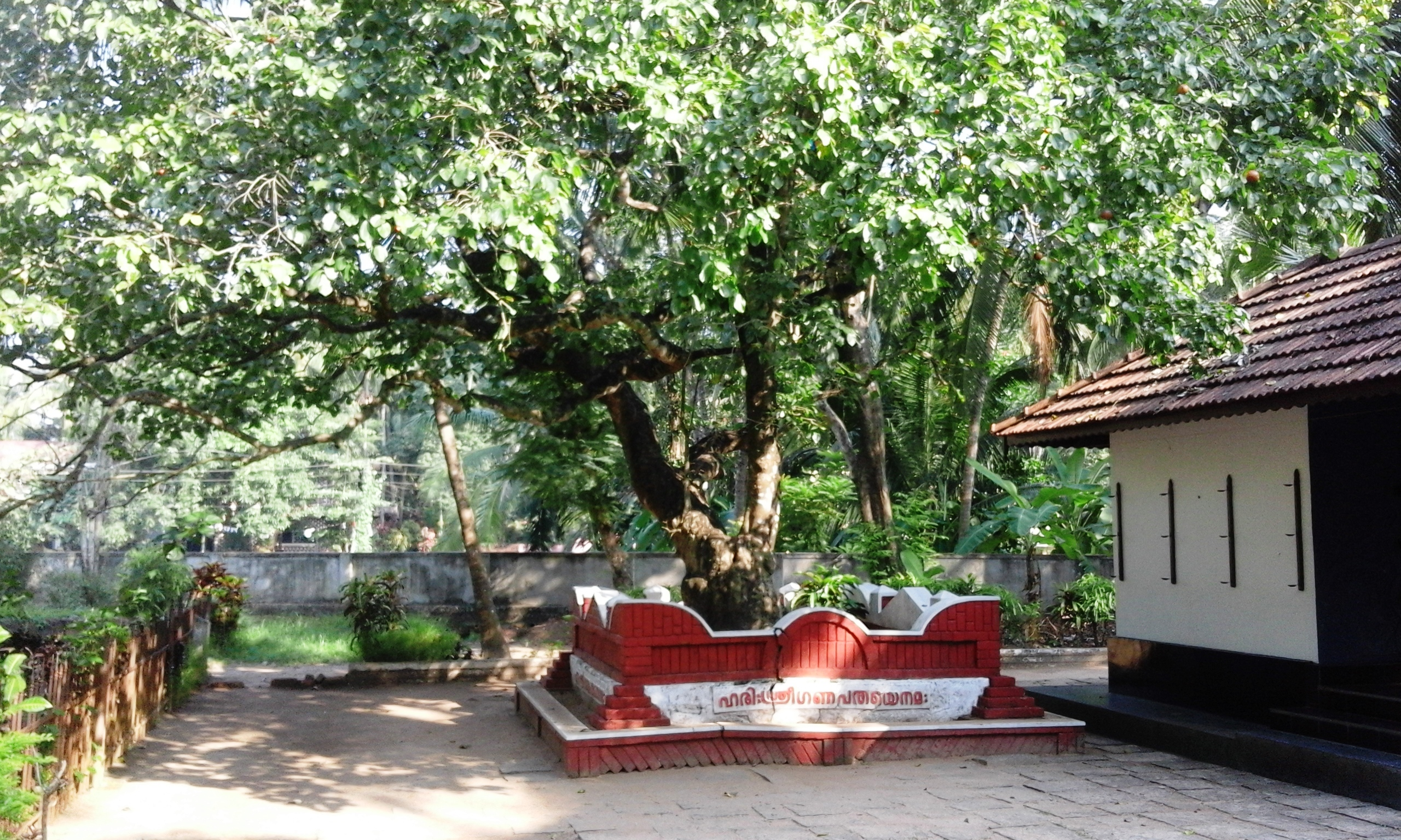 Thunchath Memorial, Tirur, India.